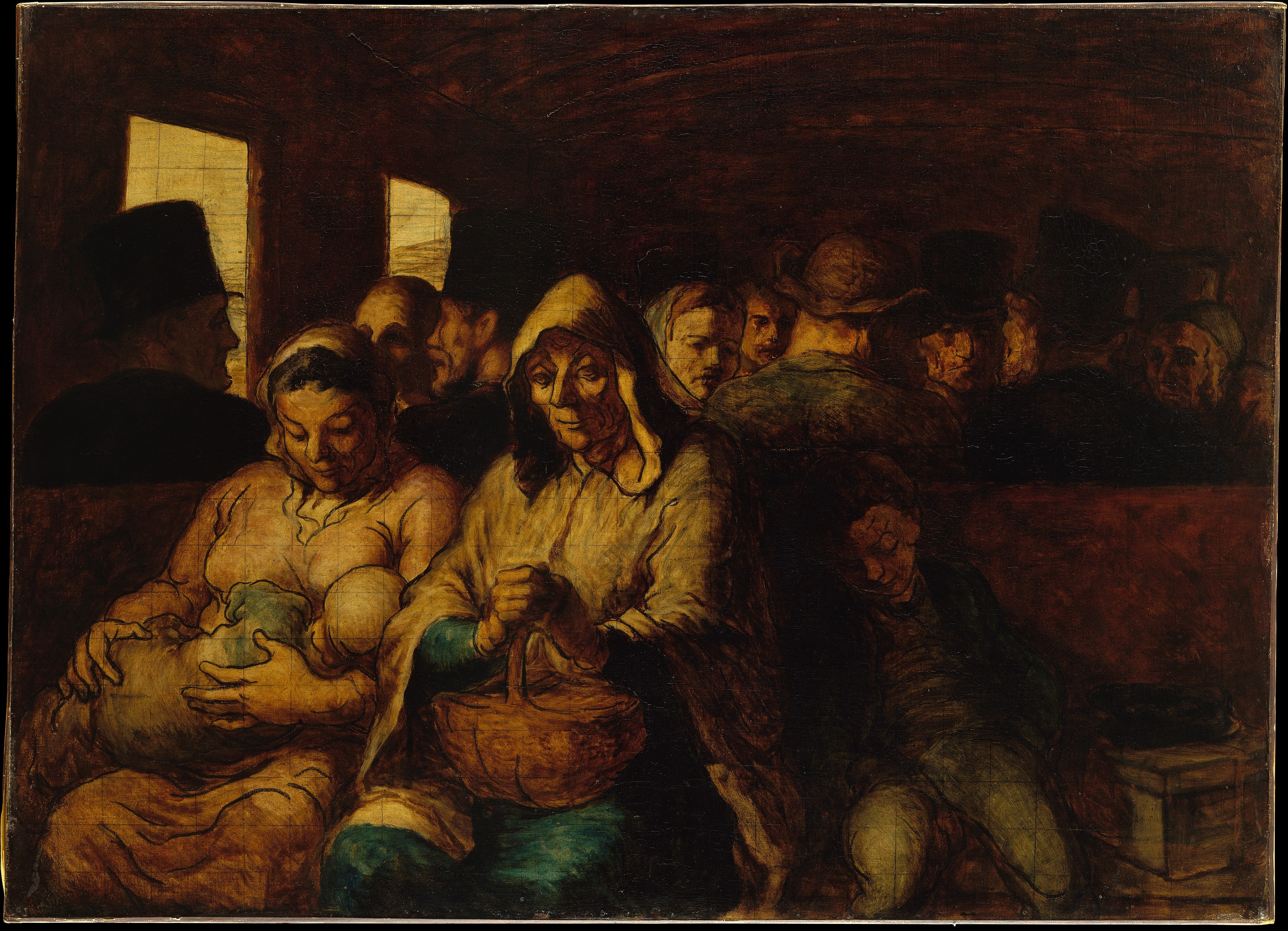 Gallery Label: As a chronicler of modern urban life, Daumier captured the effects of industrialization in mid-nineteenth-century Paris. Images of railway travel first appeared in his art in the 1840s. This "Third-Class Carriage" in oil, unfinished and squared for transfer, closely corresponds to a watercolor of 1864 (Walters Art Museum, Baltimore). Daumier executed another oil version of the subject, which he finished but extensively reworked (National Gallery of Canada, Ottawa).